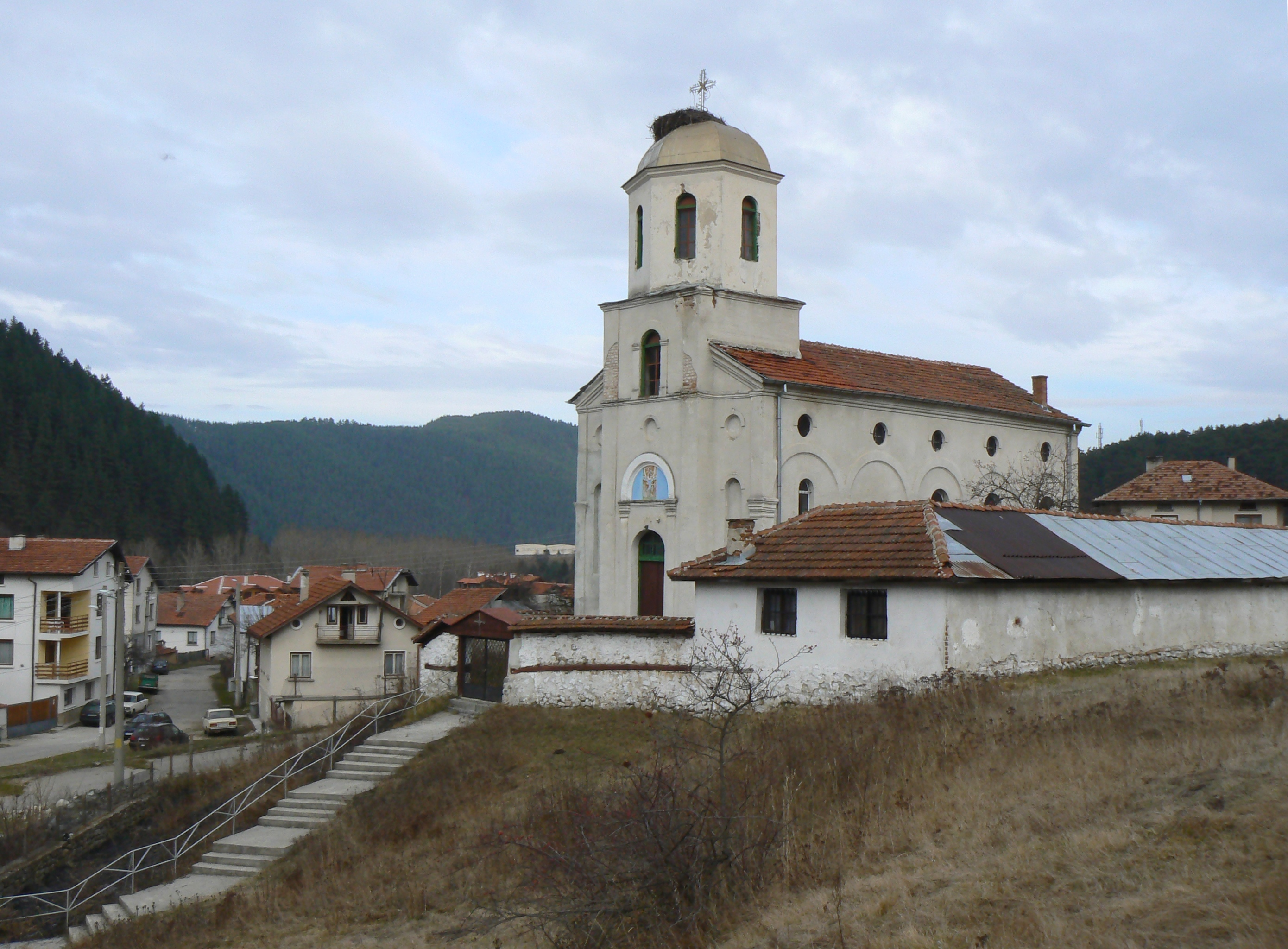 Church "Saint Spas" in village Madzhare, Bulgaria